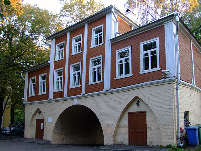 Arkhangelskoye